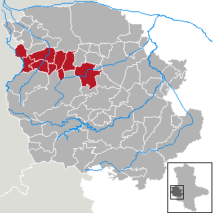 VG Nordharz in Saxony-Anhalt - District Harz